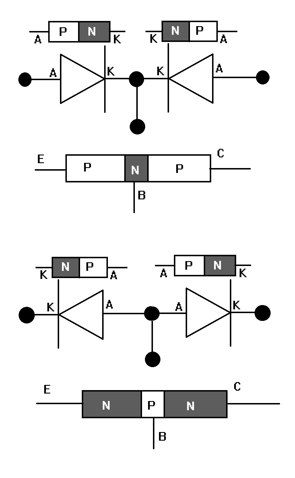 Structure of a transistor, is quite similar with head-on connected diodes.